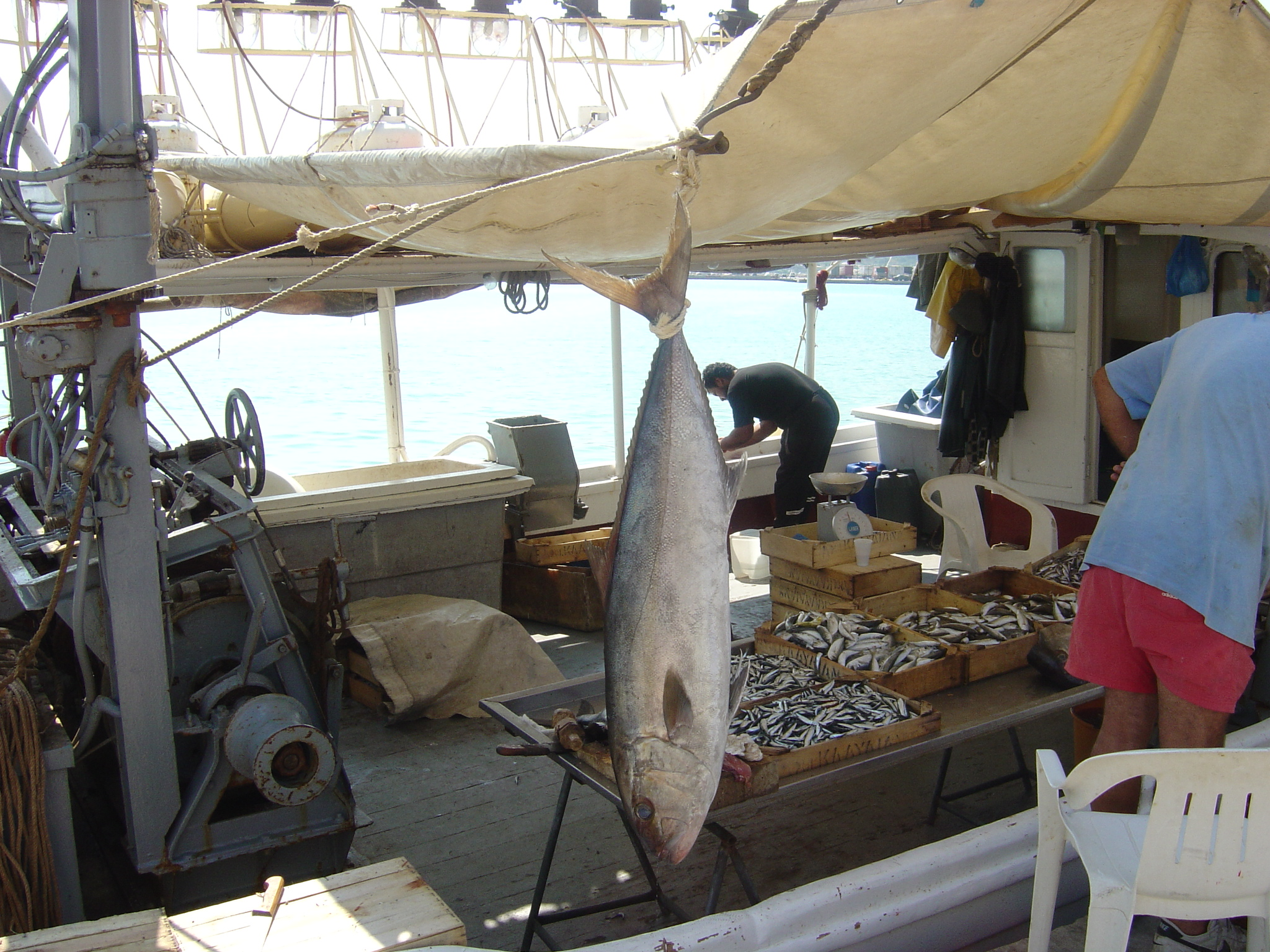 A nice fish in Kreta